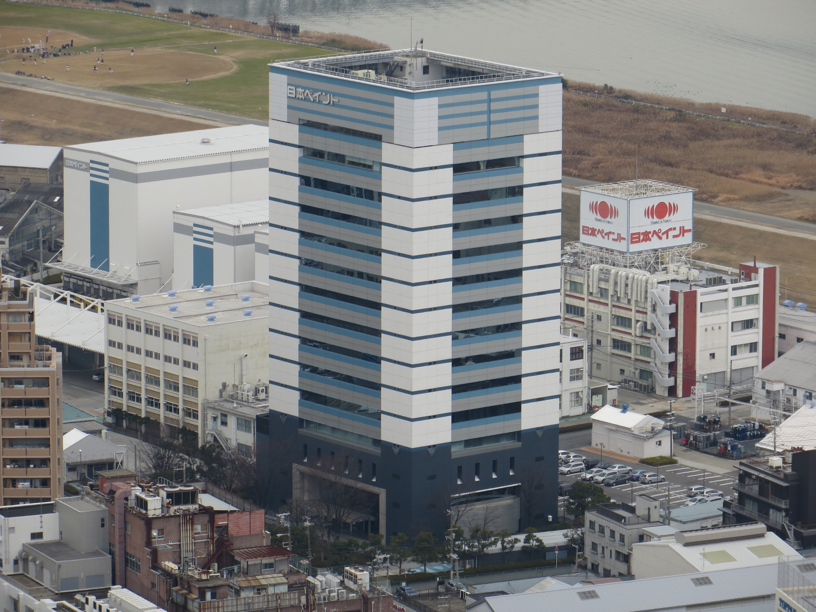 Nippon Paint. View from Umeda Sky Building.